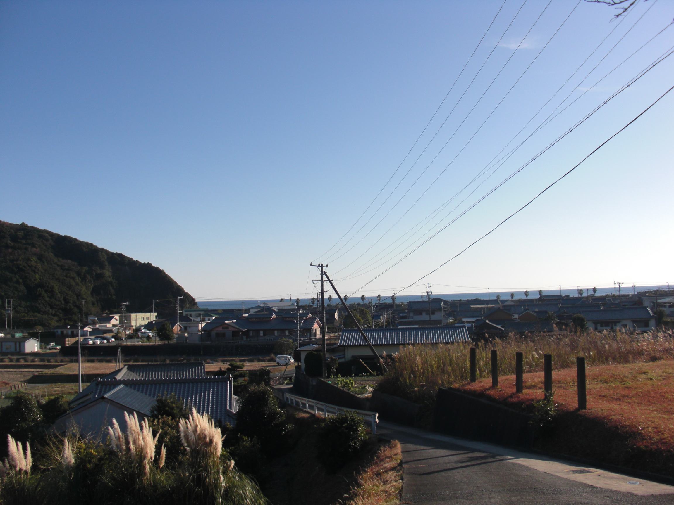 This is a landscape of Hamajimacho-Nambari, Shima, Mie, Japan.